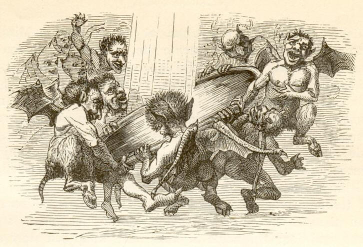 Pedersen illustration in public domain for Andersen's "Snow Queen". The demons and the magical mirror.